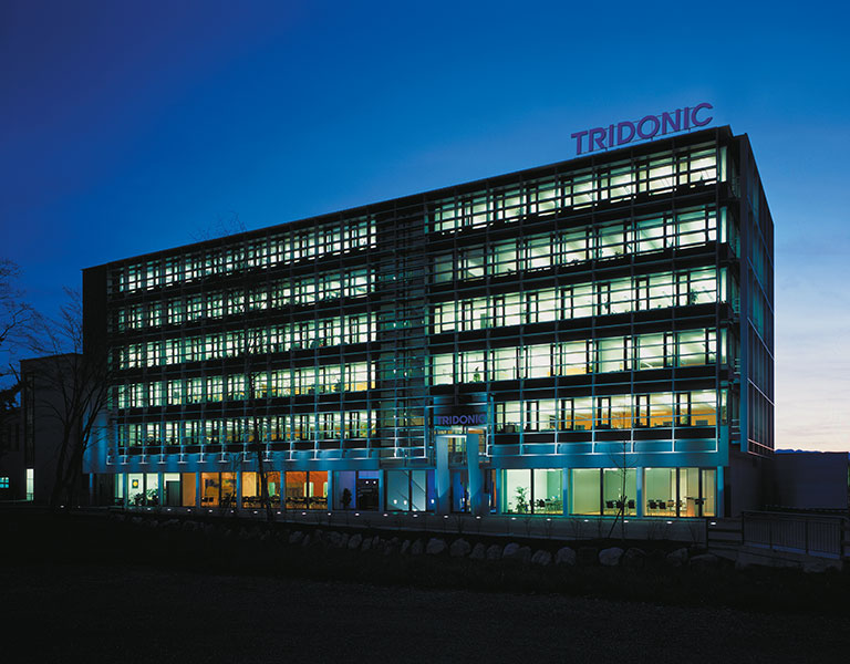 Tridonic Atvo Headquarter Dornbirn, Austria